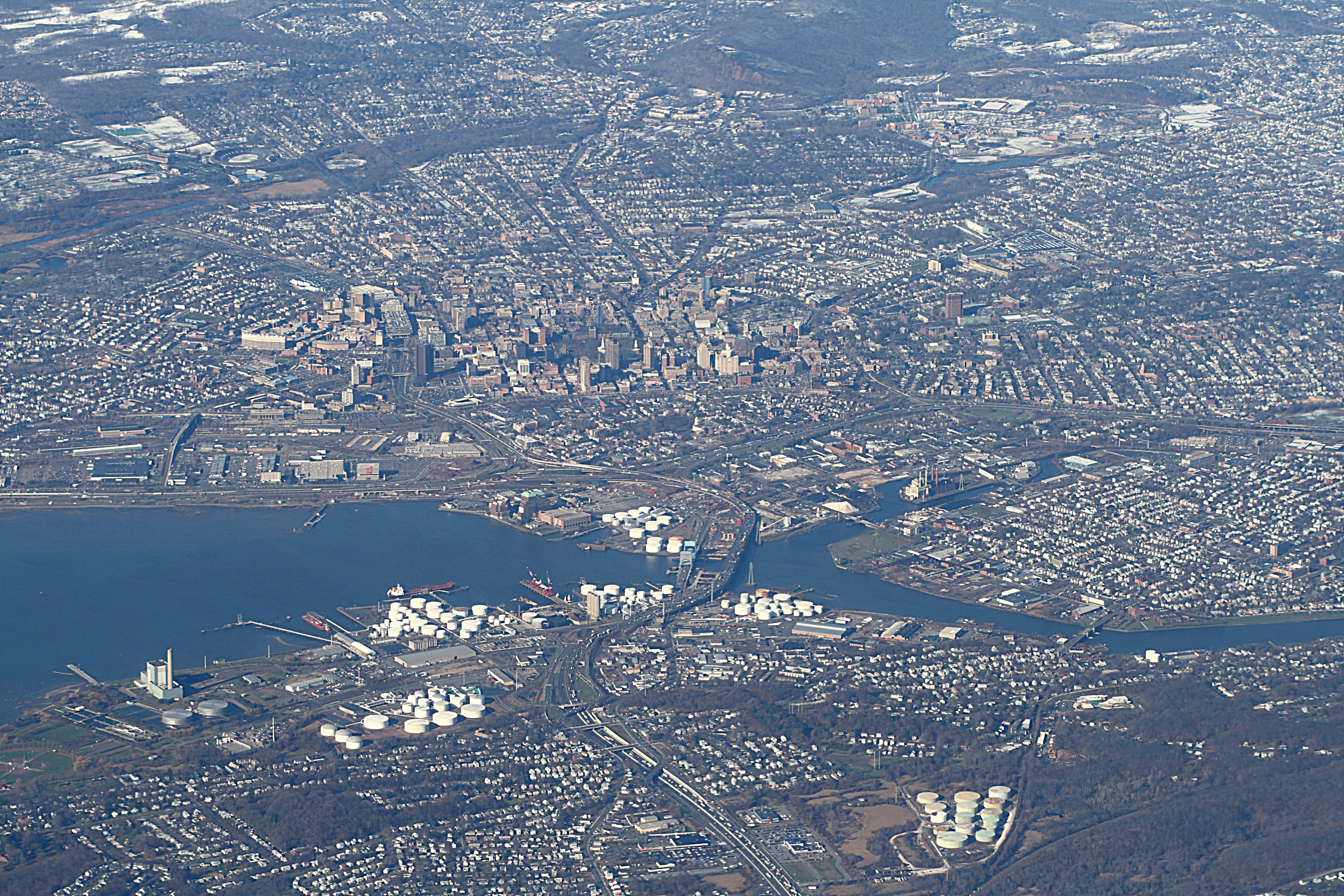 New Haven, Connecticut viewed from an airplane en route to Bradley International Airport